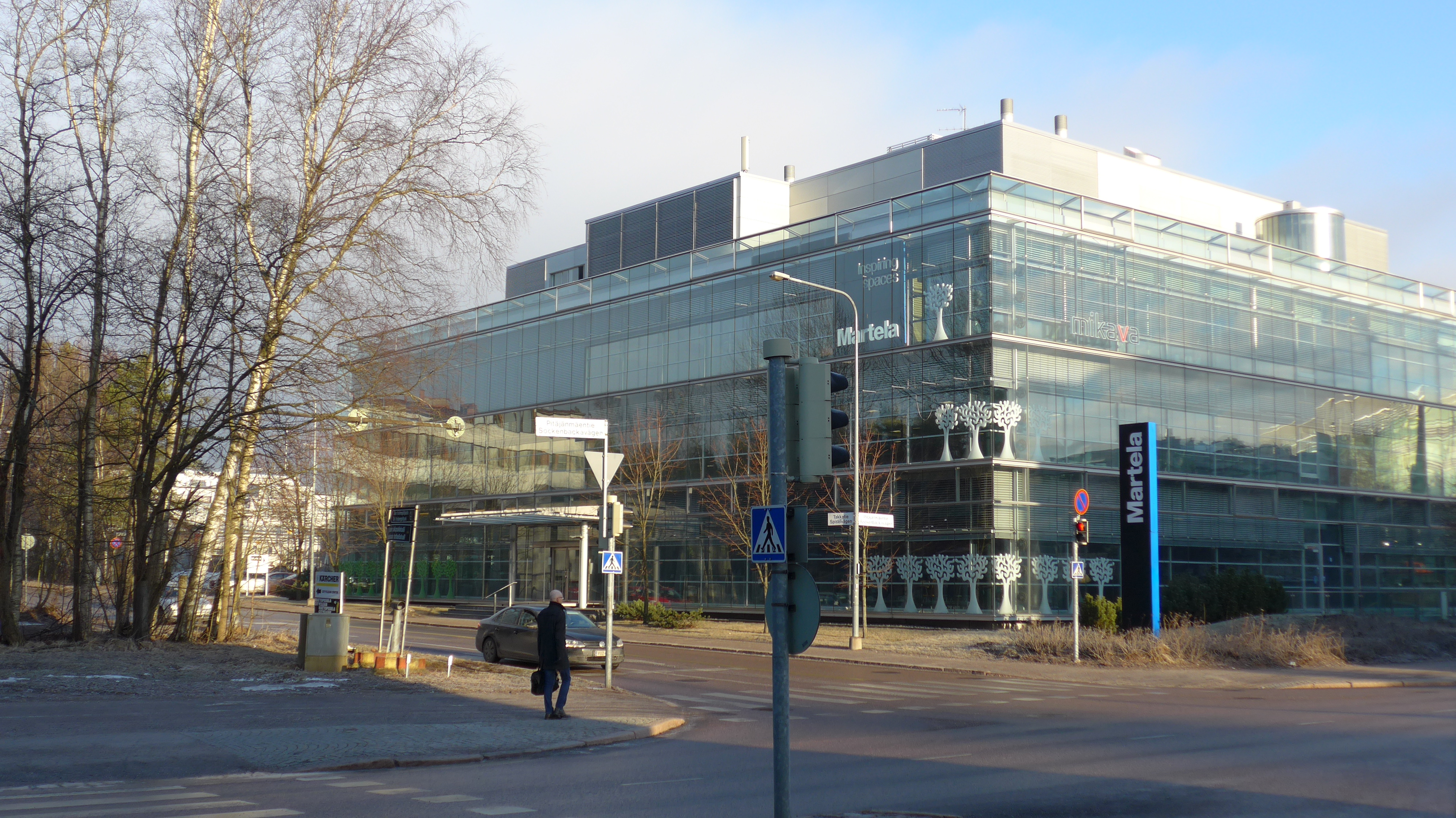 Martela office in Pitäjänmäki, Helsinki City. Martela is part of the office interior industry.